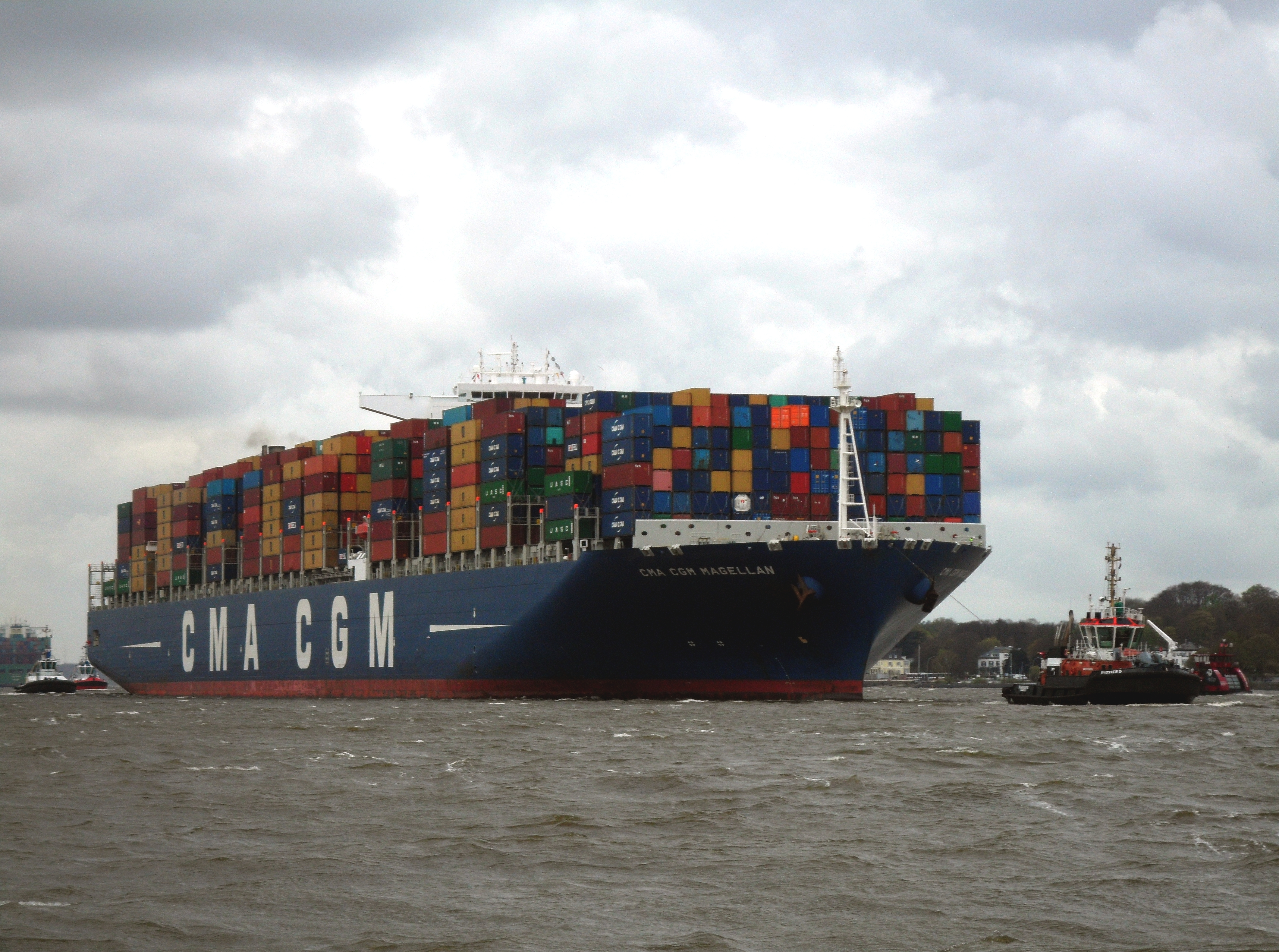 Container ship CMA CGM Magellan with destination Port of Hamburg in stormy northwest wind with the assistance of three tugs